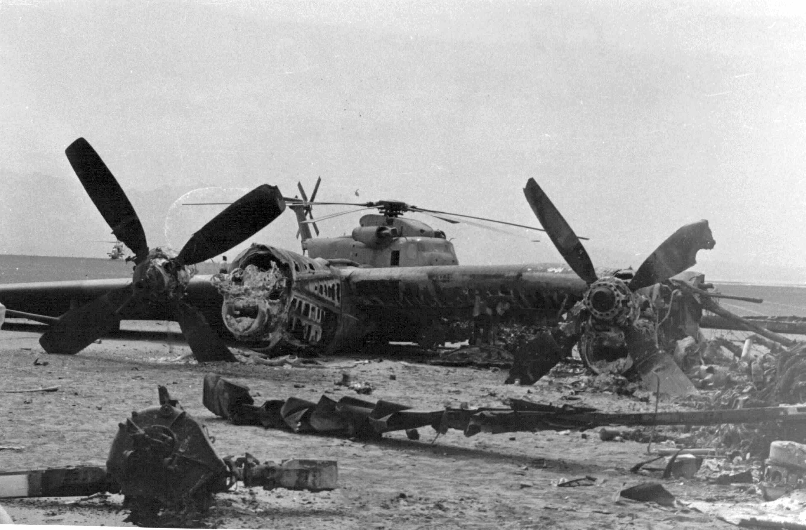 Operation Eagle Claw-Tabas